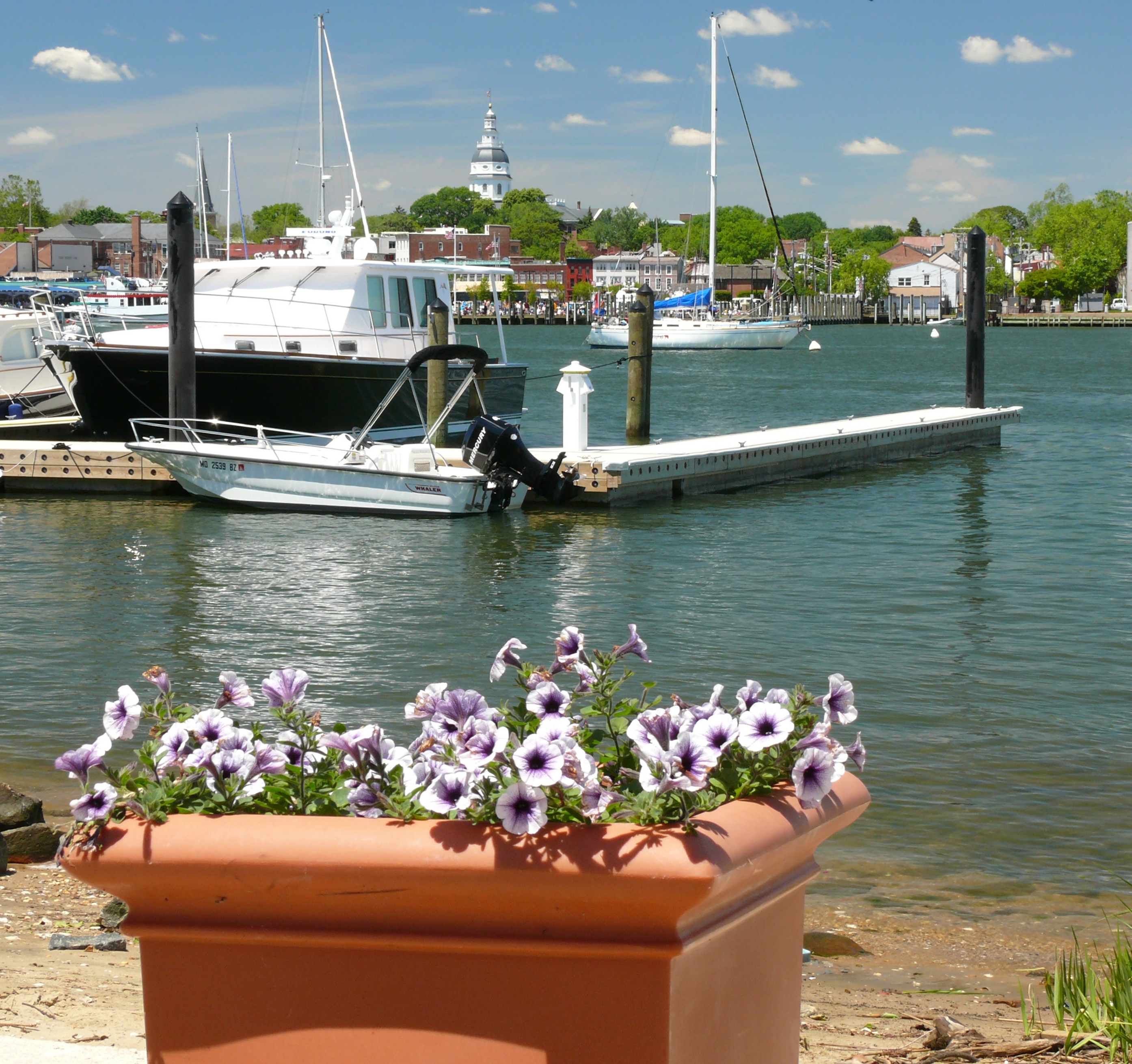 Annapolis Maryland looking across an estuary toward the Maryland State House